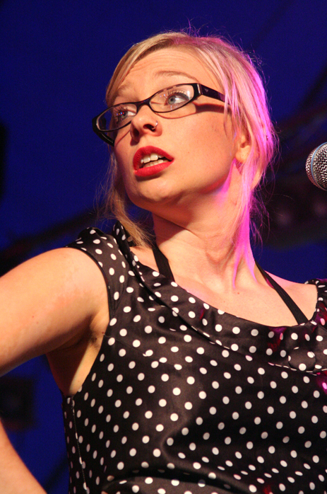 The Pipettes, London, England